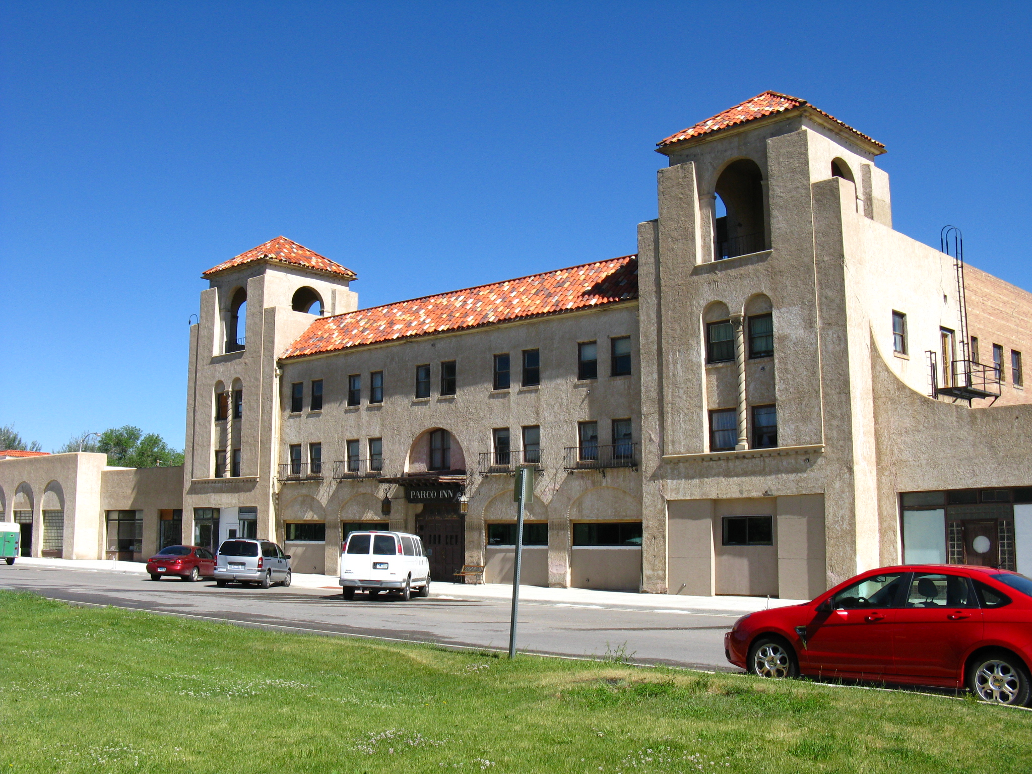 Parco Inn, Sinclair, Wyoming. This area is listed on the National Register of Historic Places.